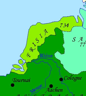 Frisian Empire: Magna Frisia, Fryske Ryk